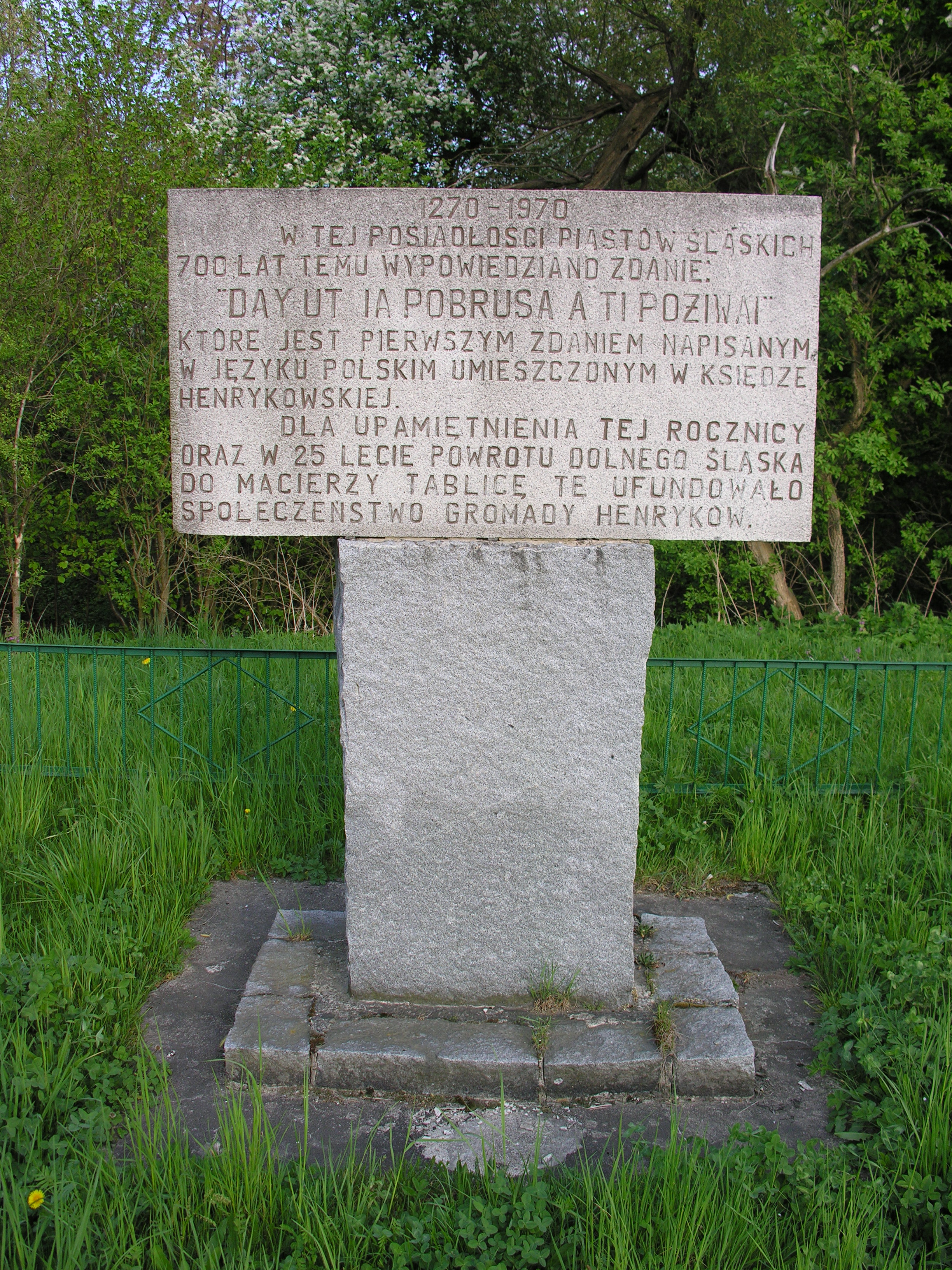 Book of Henryków memorial in Brukalice.